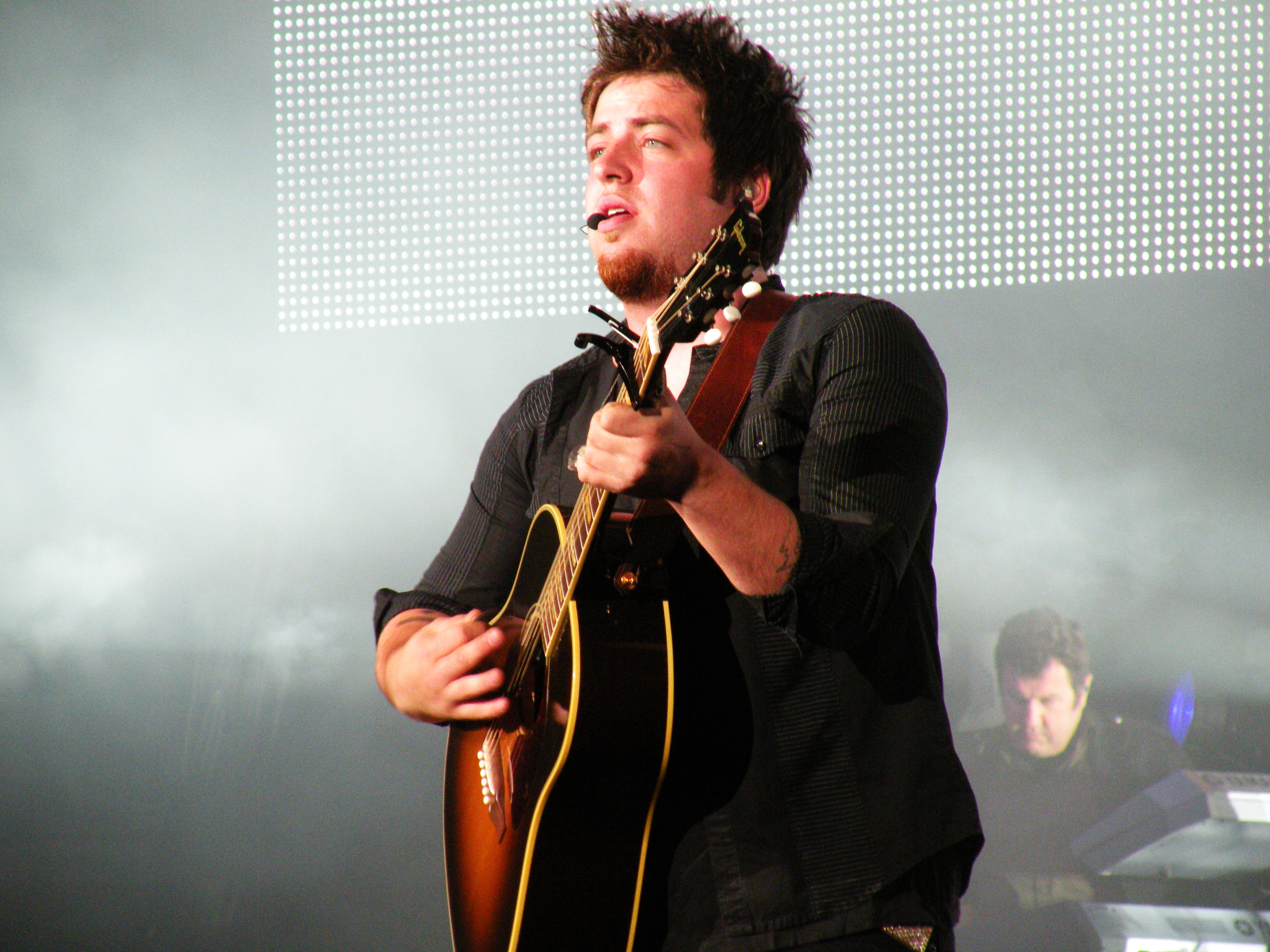 Lee Dewyze performing on the American Idol Live tour in Denver, CO on 8/23/2010